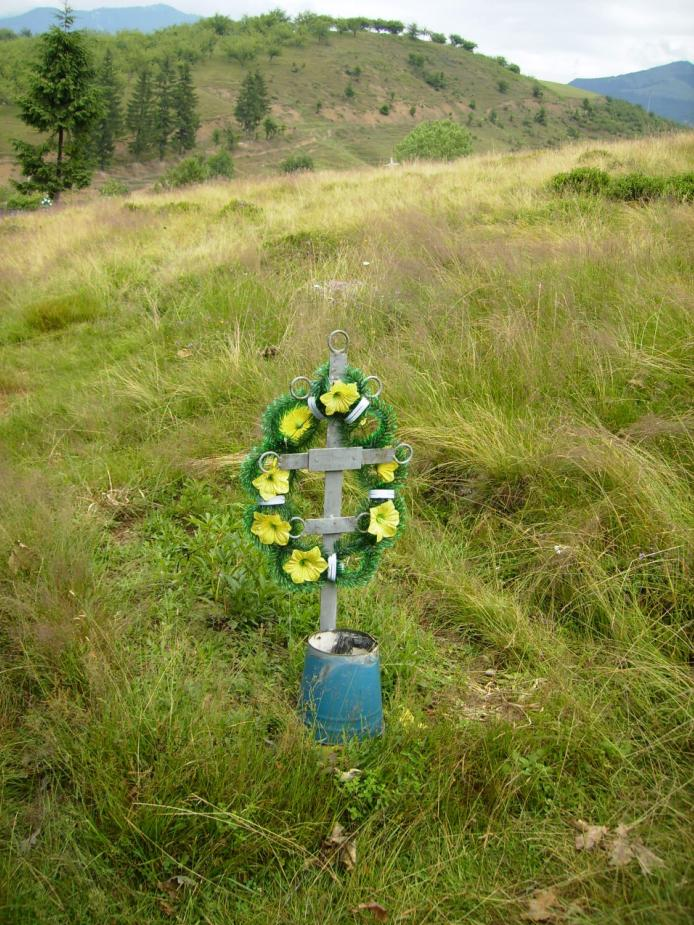 Grave of Nikola Šuhaj in Kolochava